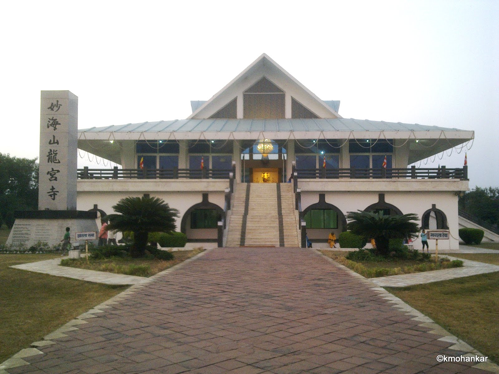 Dragon Palace Temple, Kamptee, India.